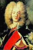 Gustav Samuel Leopold of the Palatinate-Zweibrücken (1670-1731)